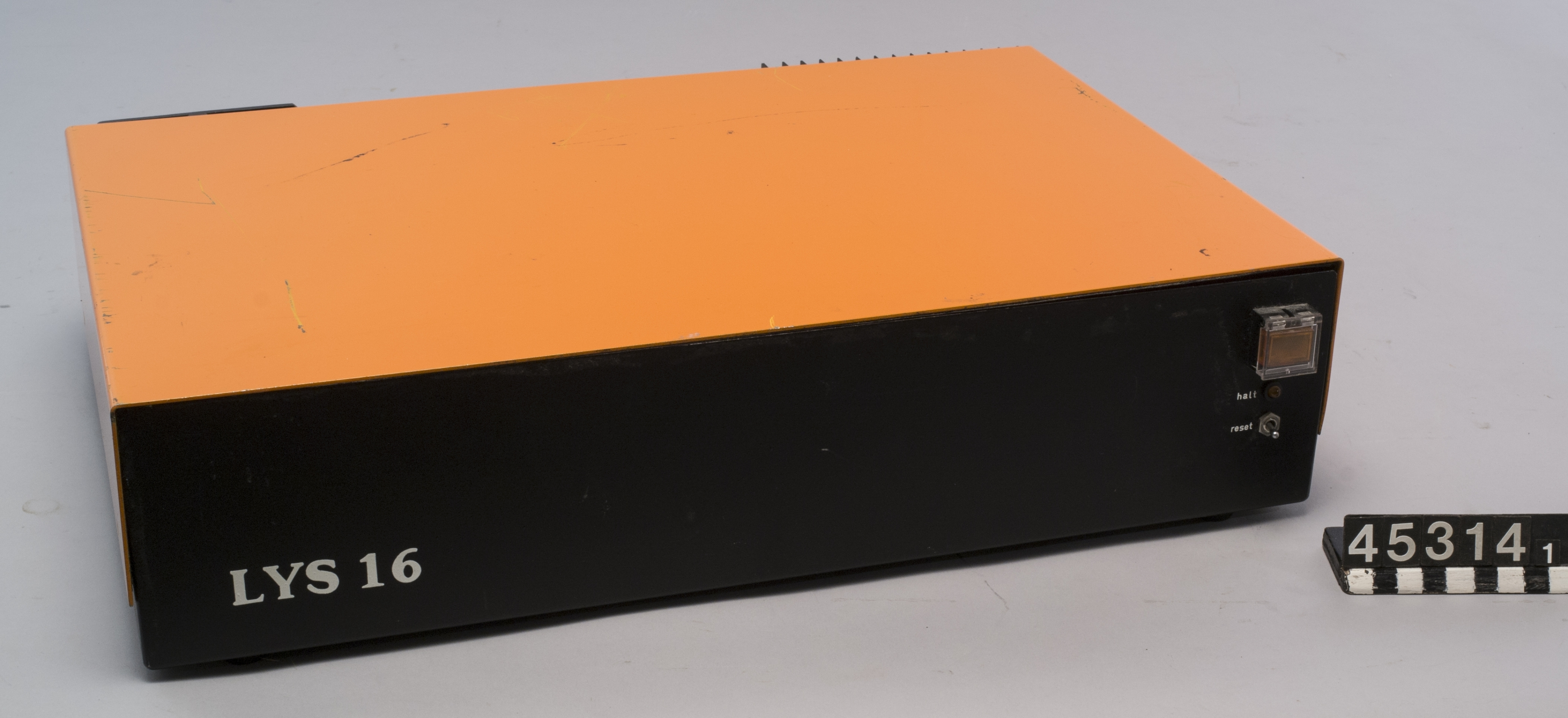 The first Swedish personal computer LYS-16